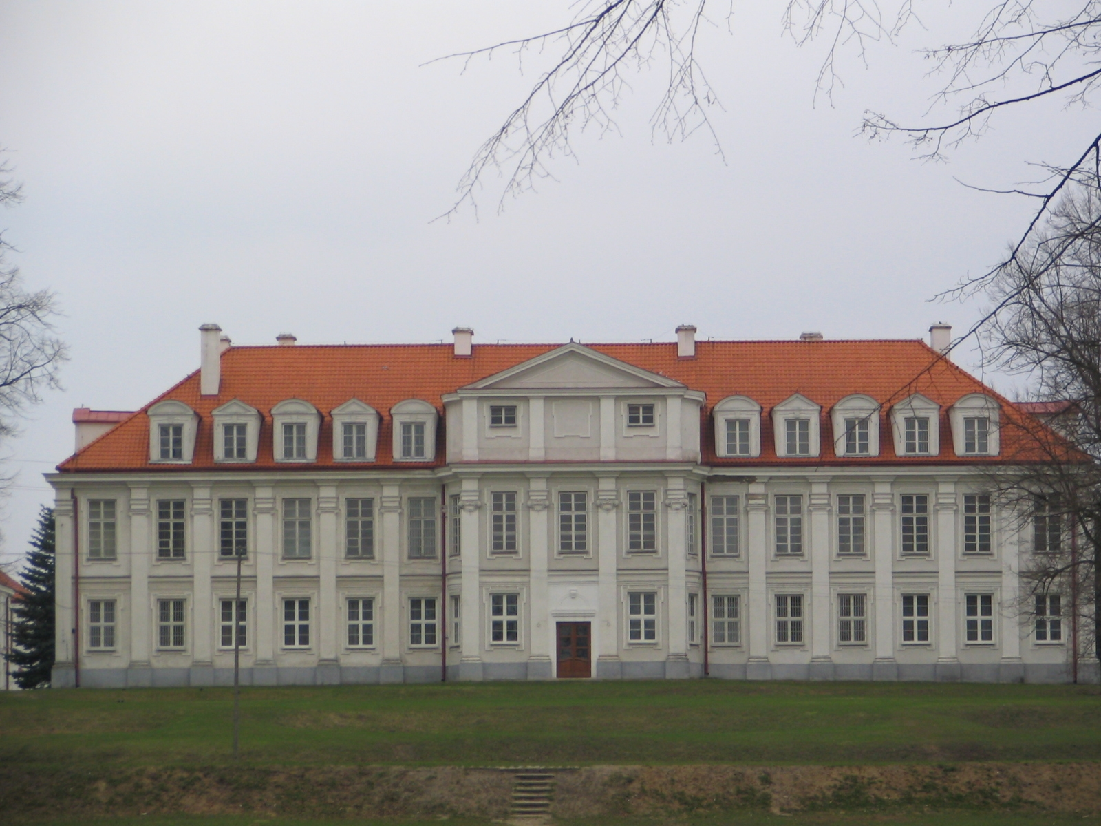 Bishops Palace in Wolbórz (Poland) - view from the park